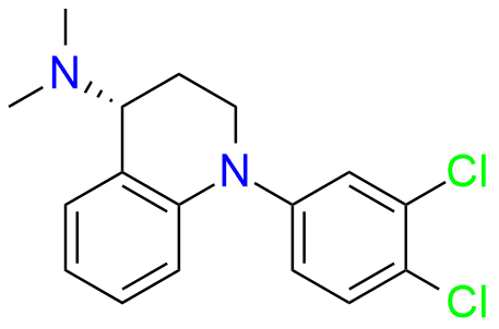 Example of a SDRI